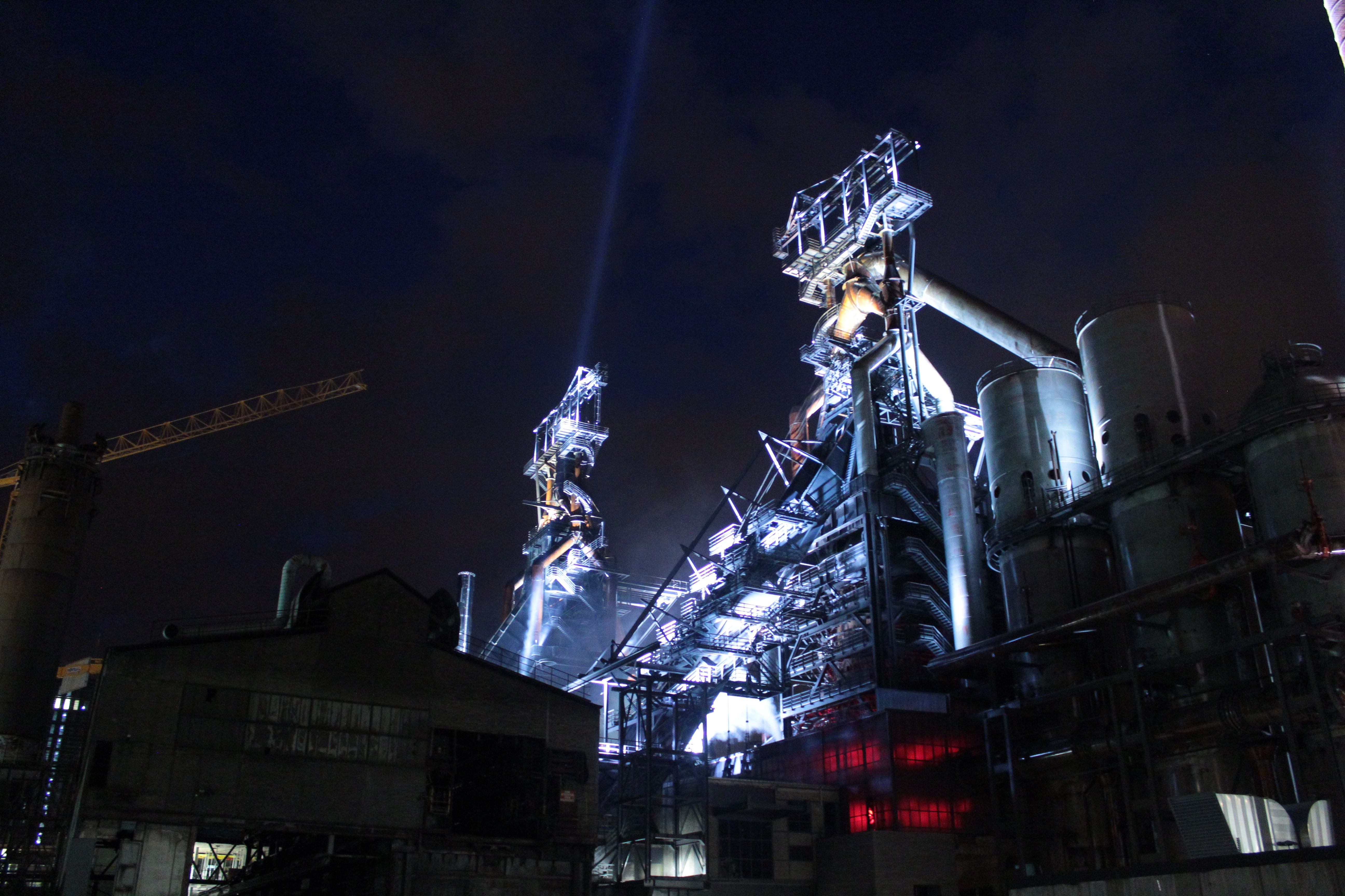 Illuminated blast furnaces at Belval, Luxembourg, during the Festival de la Culture industrielle et de l'Innovation, on July 4th, 2014.